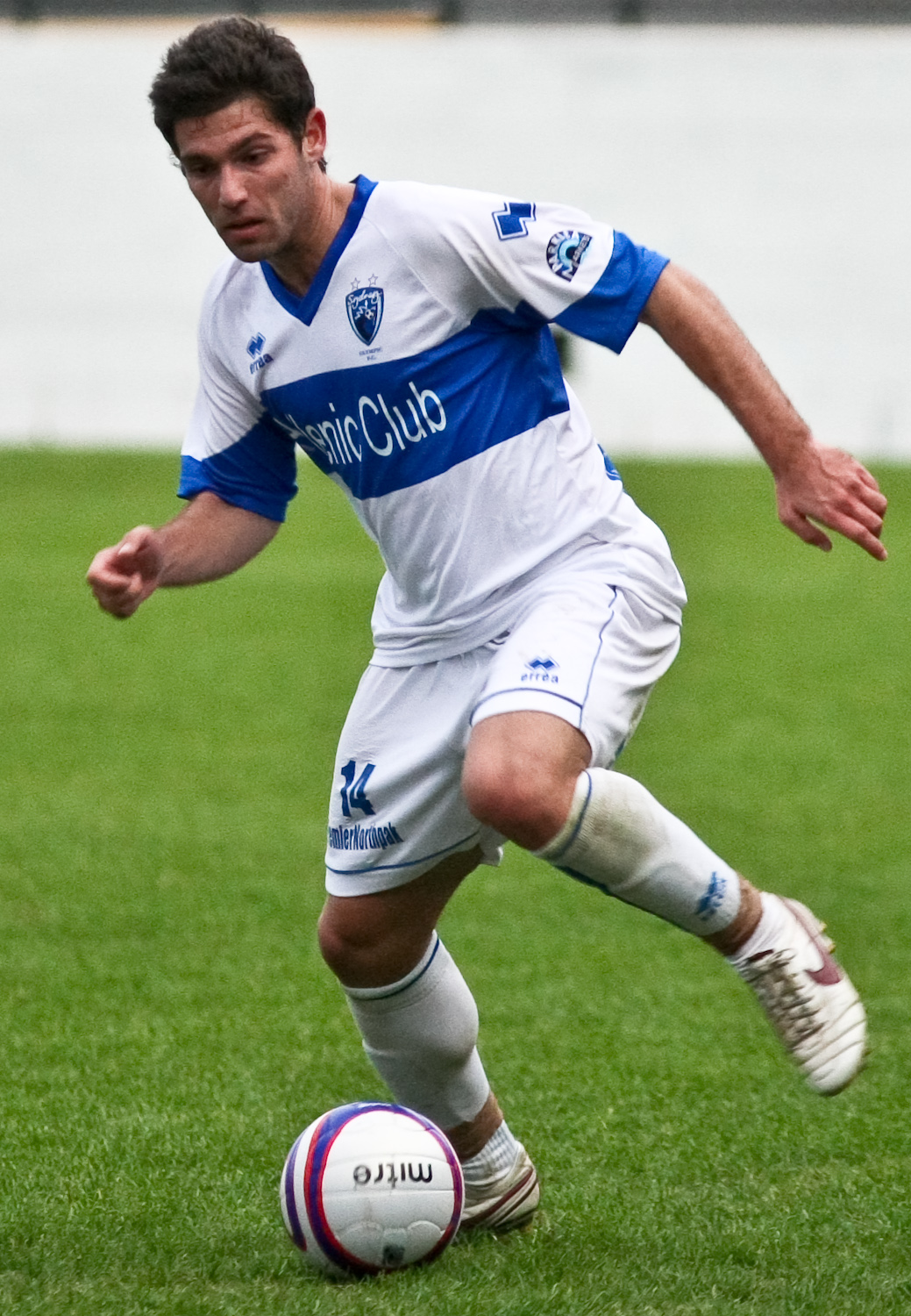 Chris Triantis playing for Sydney Olympic against the Sydney Tigers in Round 13 of the 2009 New South Wales Premier League.